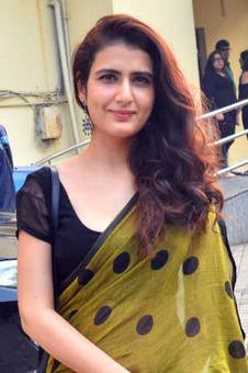 Fatima Sana Shaikh at Juhu PVR